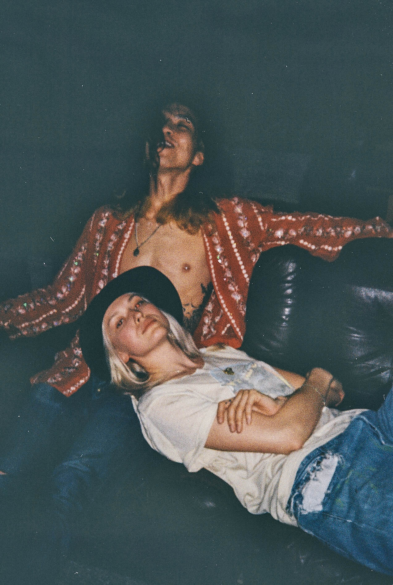 Girlyboi during their performance at the Shoreditch House in London on July, 9th 2015.